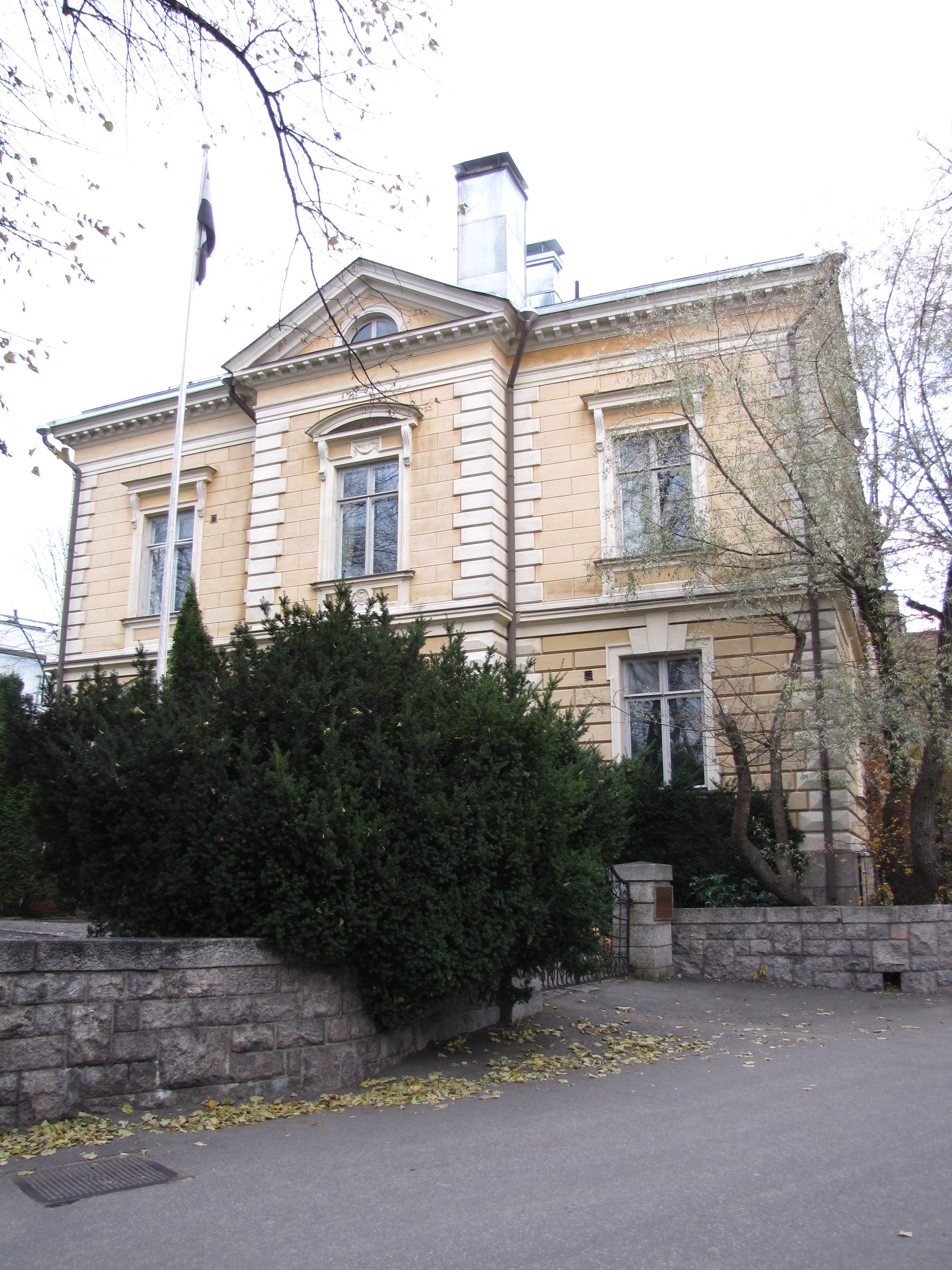 Arab Republic of Egypt embassy in Helsinki. Address Itäinen Puistotie 2, Kaivopuisto.